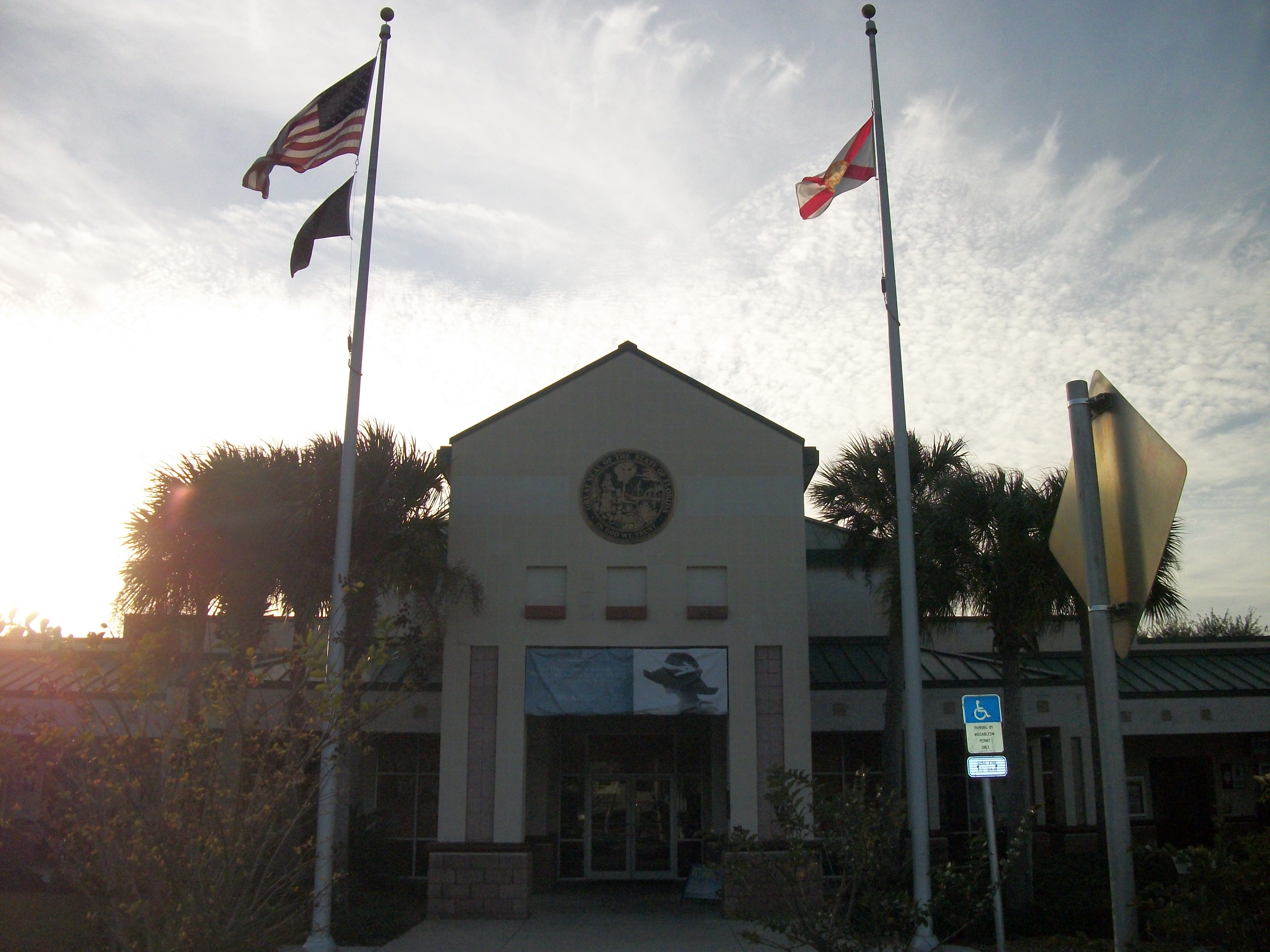 Main entrance to the Southbound Welcome Center along Interstate 95 in Florida, with flagpoles on both sides.